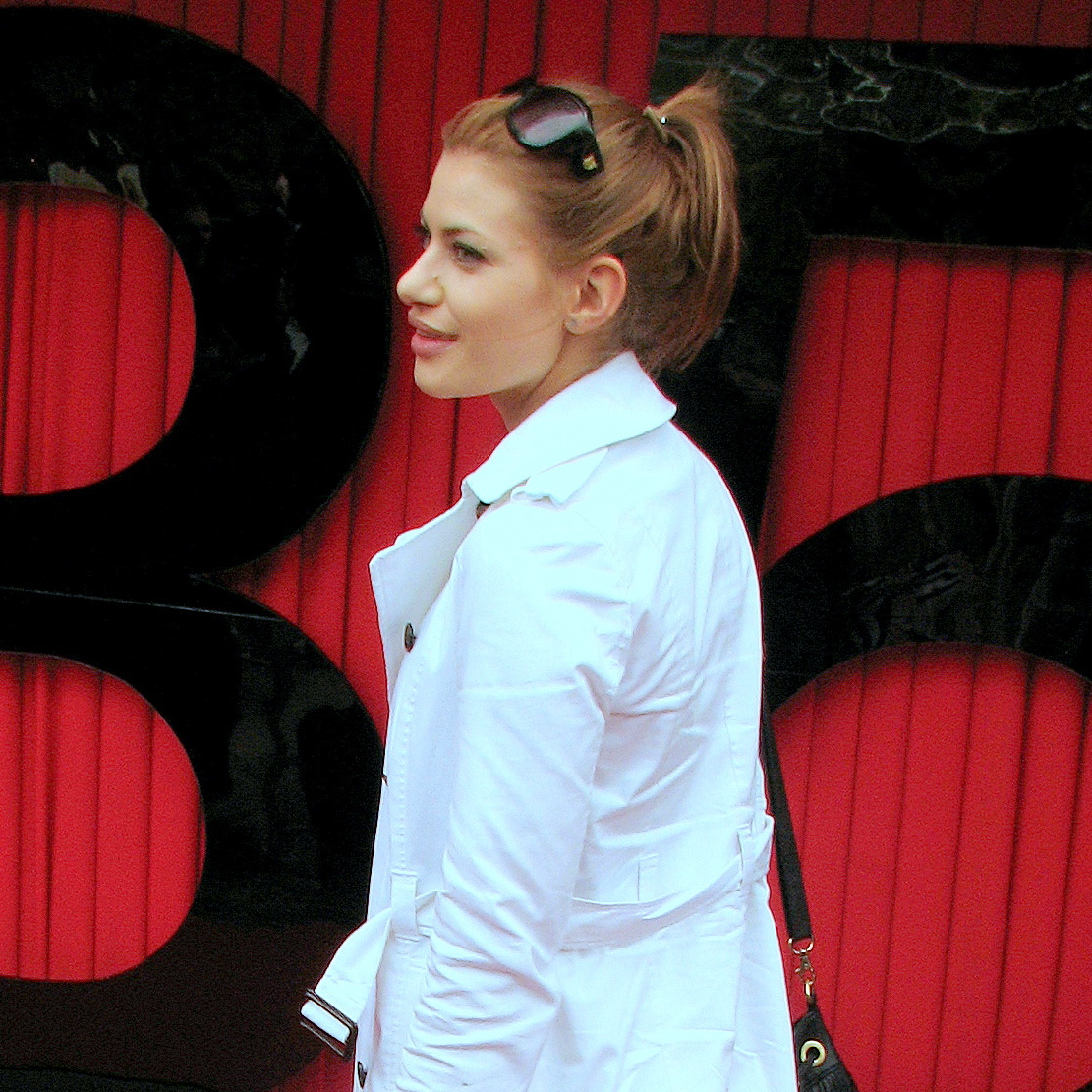 Aleksandra Kisio at opening of the XXXV Polish Film Festival in Gdynia 2010.